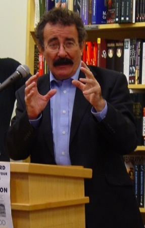 Robert Winston speaking about his new book (The Story of God) in Borders Oxford.